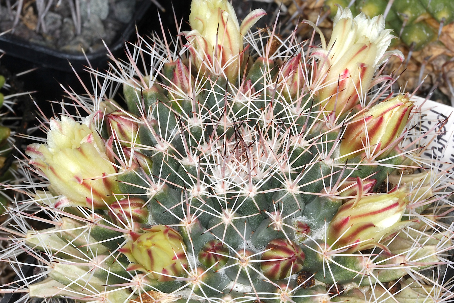 Mammillaria petrophila ssp. baxteriana